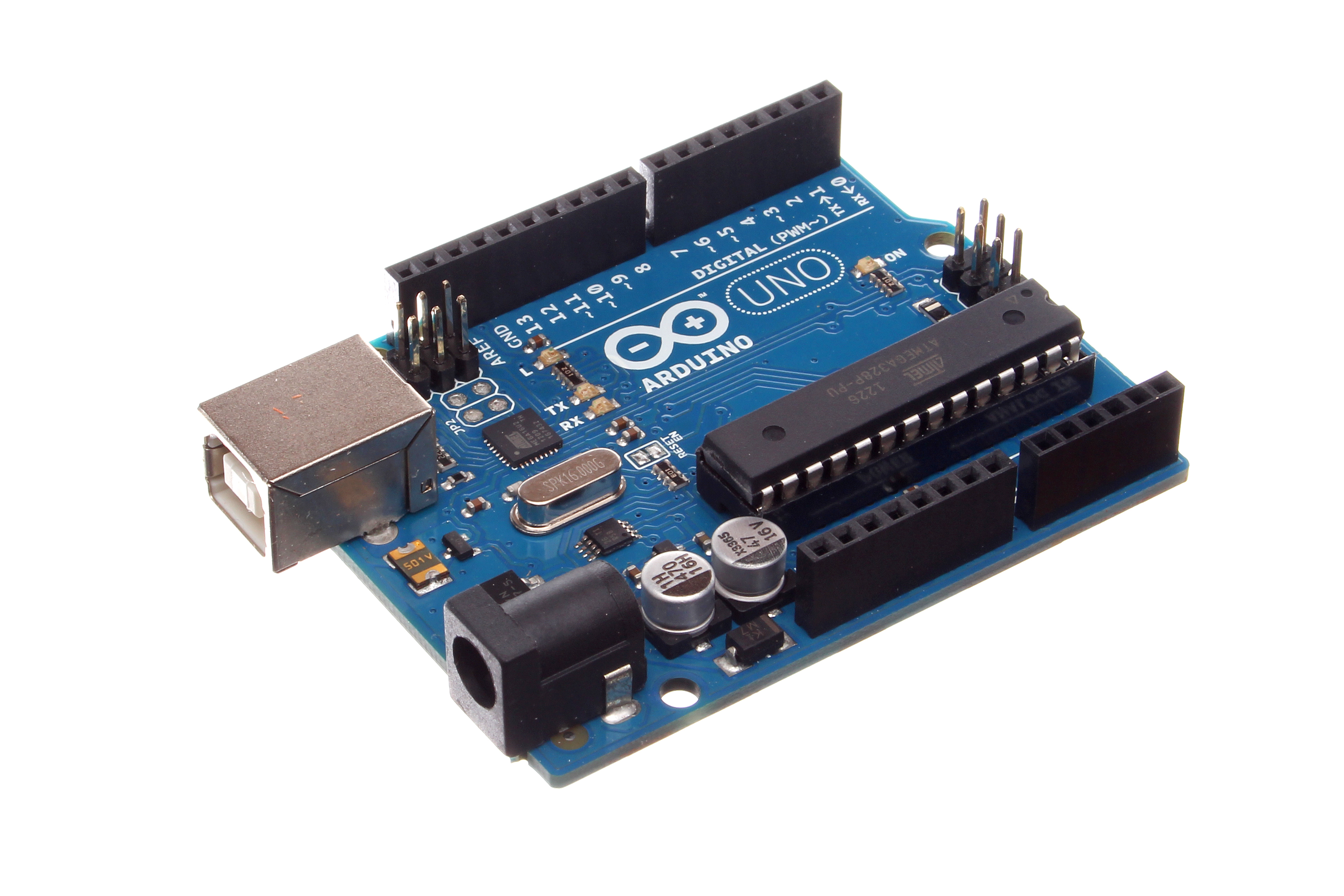 Arduino Uno Rev 3.